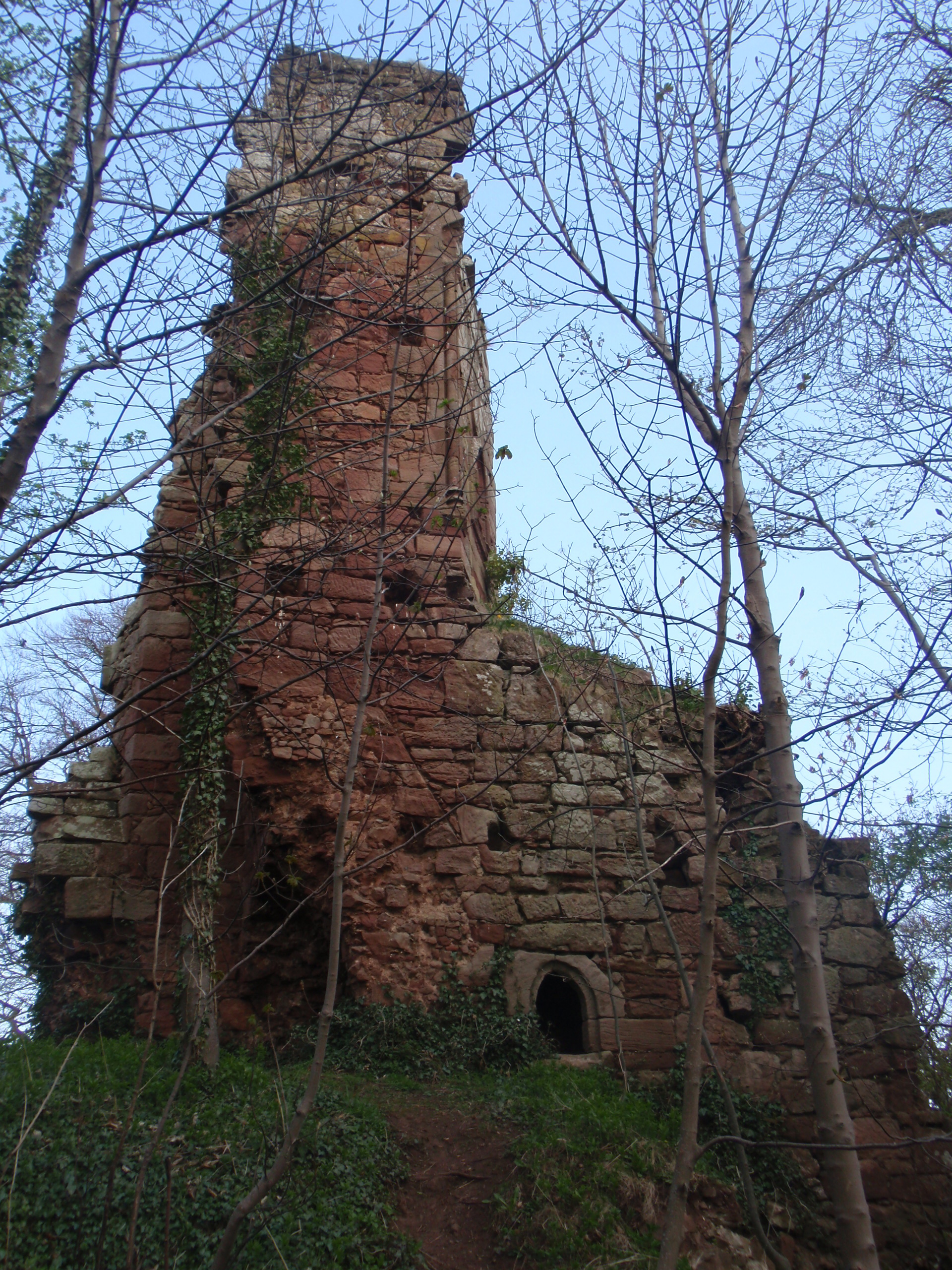 Barbican, Yester Castle, East Lothian, Scotland